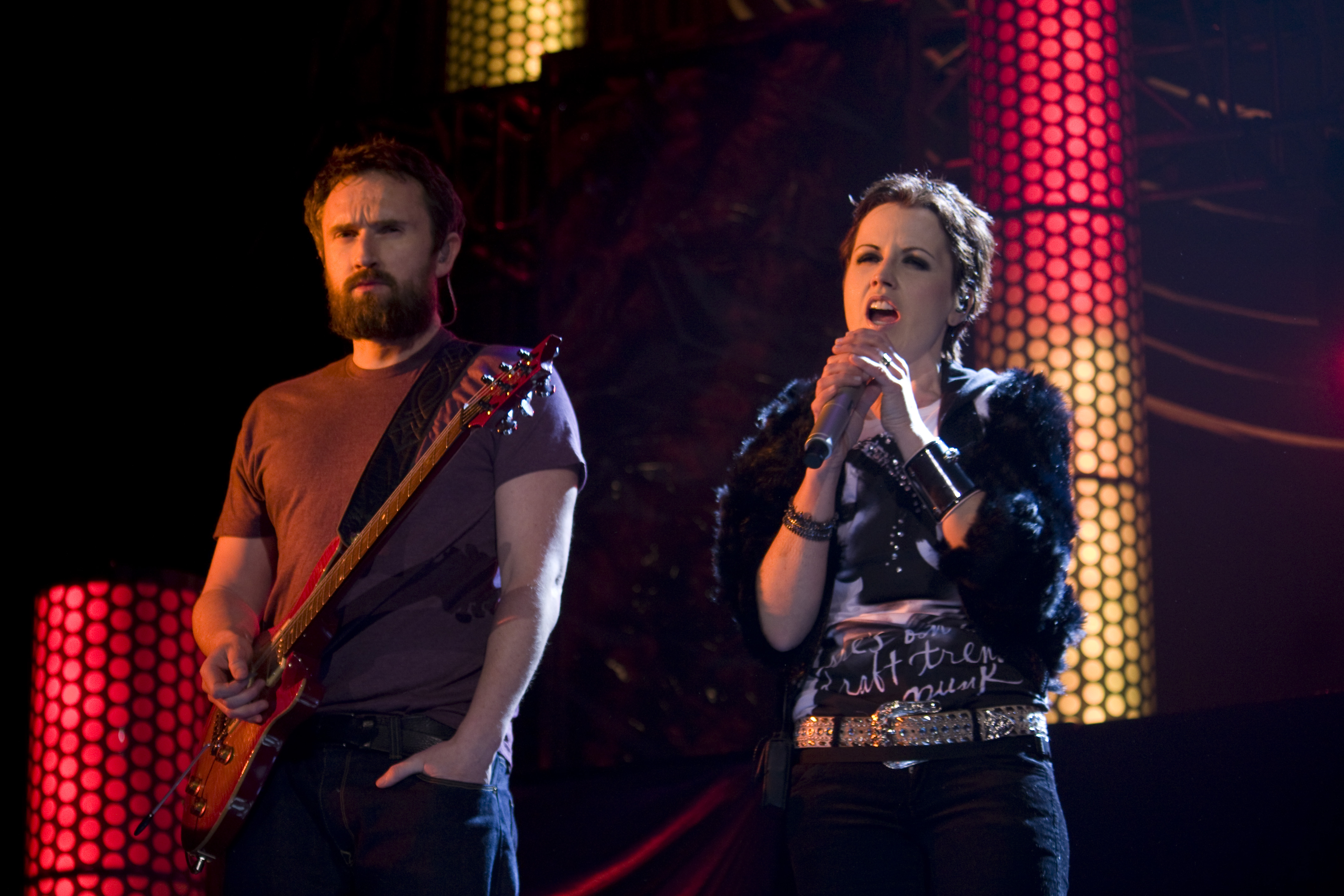 The Cranberries live in Barcelona 2010-03-13